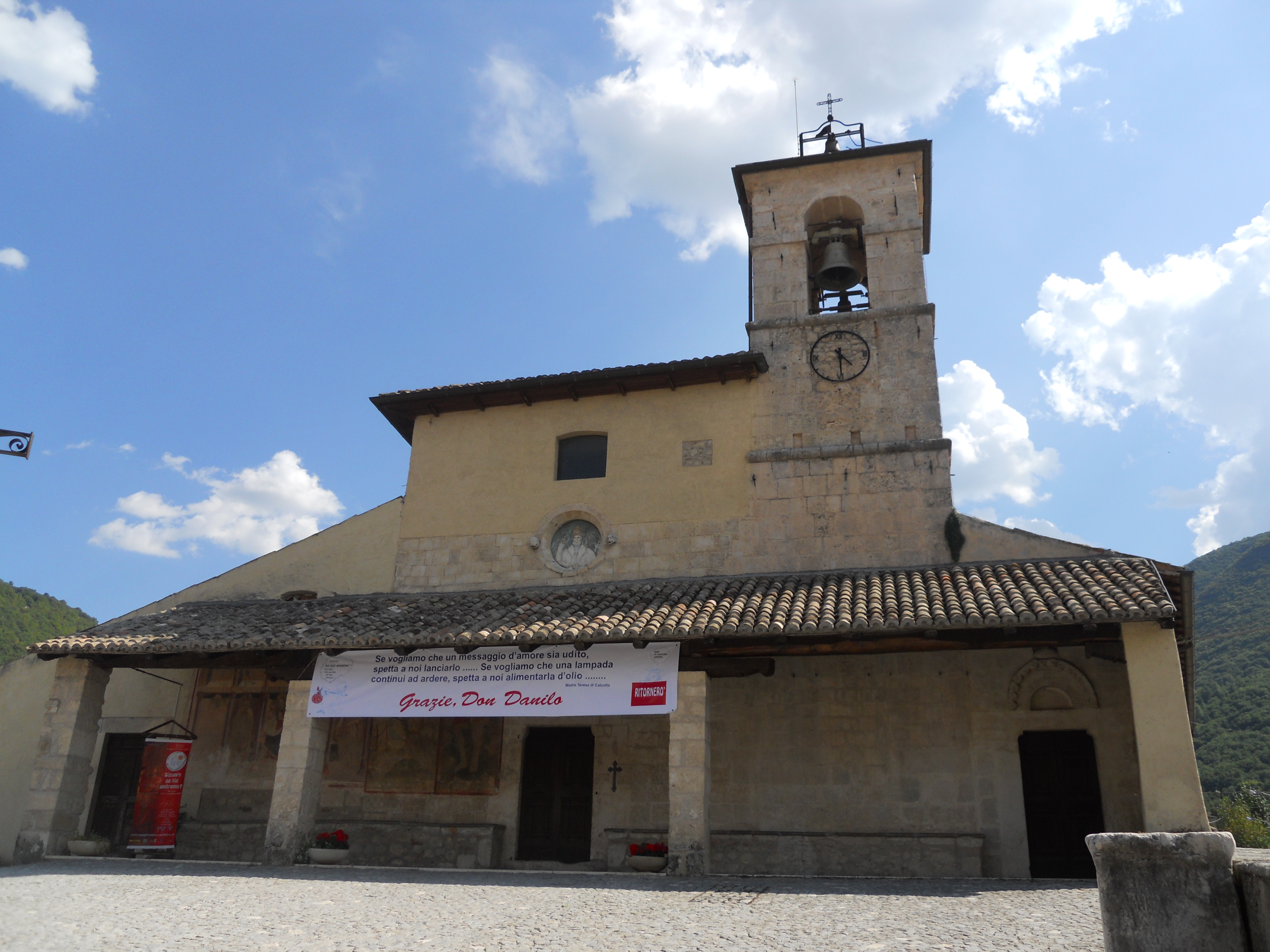 Saint Panfilo church, Villagrande (municipality of Tornimparte, Abruzzo, Italy) - Facade